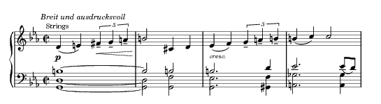 b2\! cis,4 d4